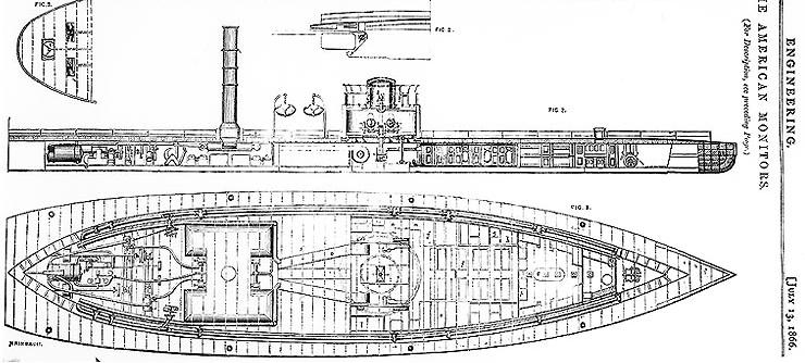 A cropped engraving of the USS Nausett. The engraving clearly shows the large wooden "raft" surrounding the iron hull, the revolving turret with its two 11-inch guns amidships, and a tall stack along with rowboat gantries aft.